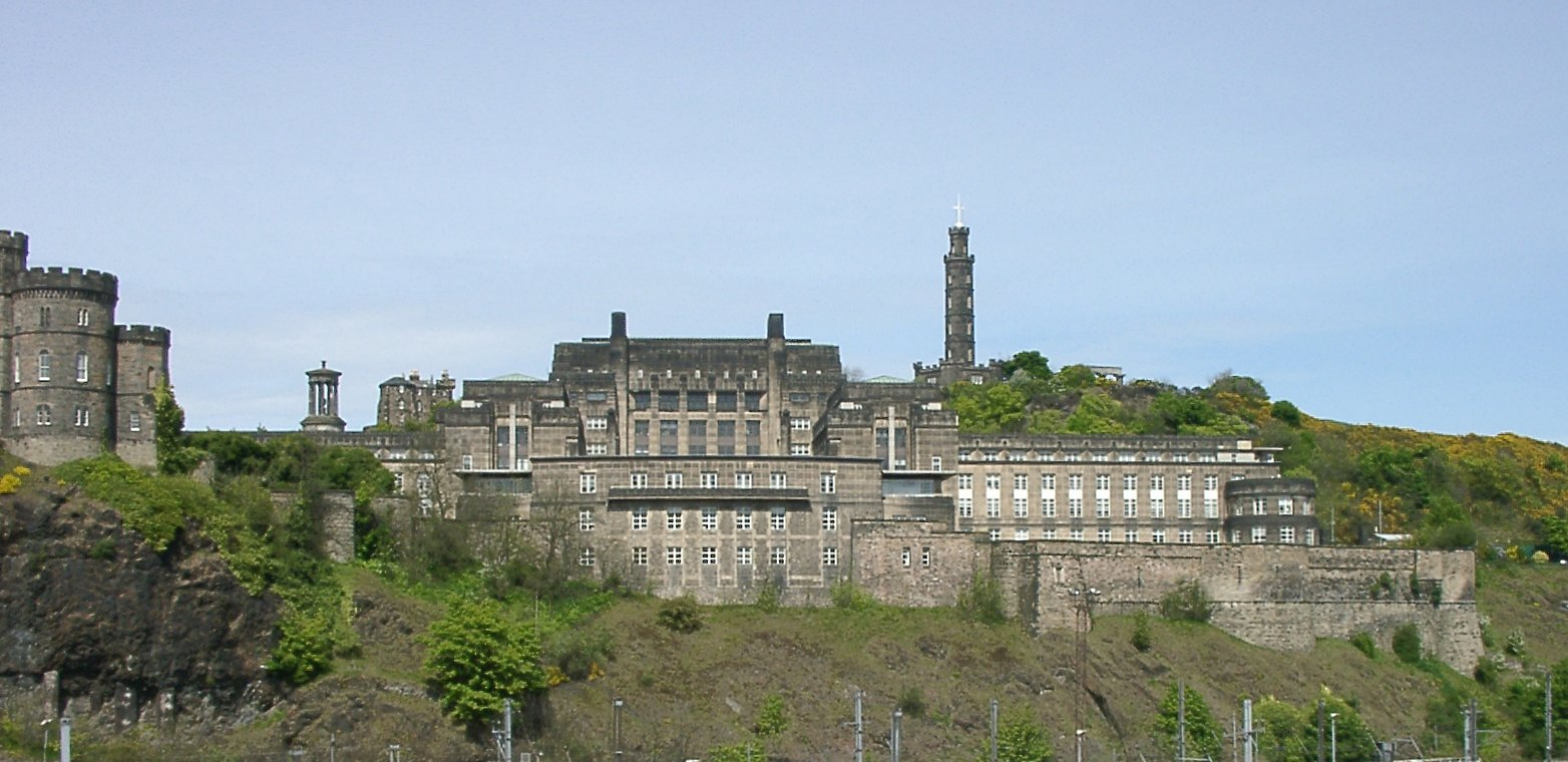 St. Andrew's House on Calton Hill in Edinburgh. The Nelson Monument is behind, and to the left is the Governor's House, all that now remains of the Old Calton Gaol.